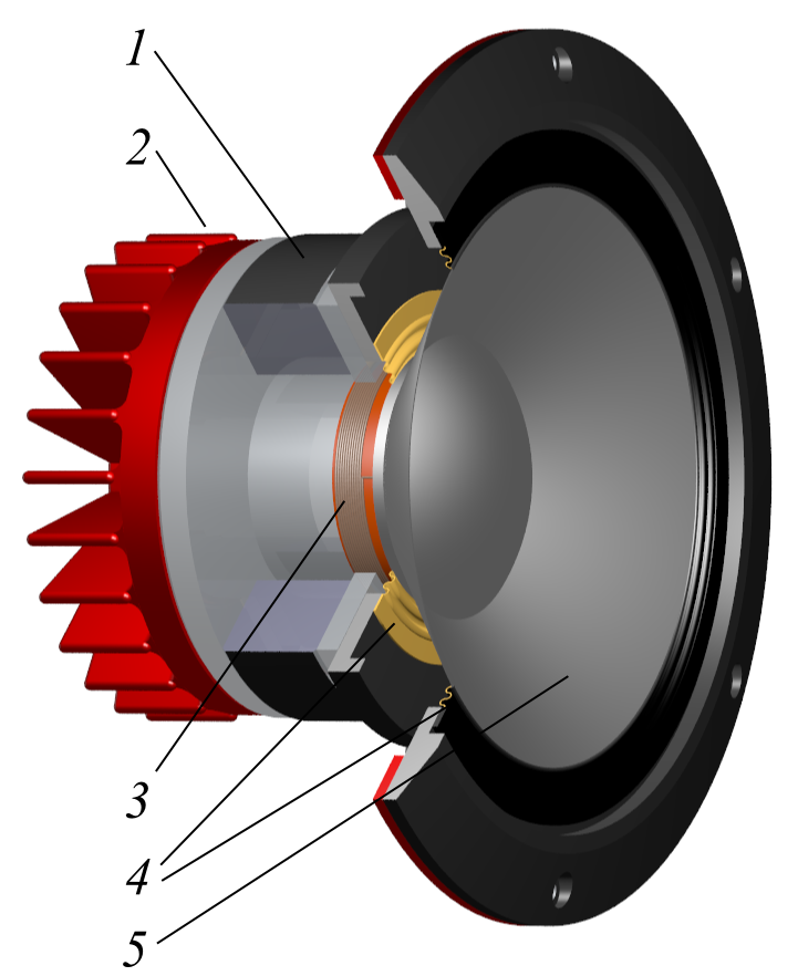 Dynamid loudspeaker element